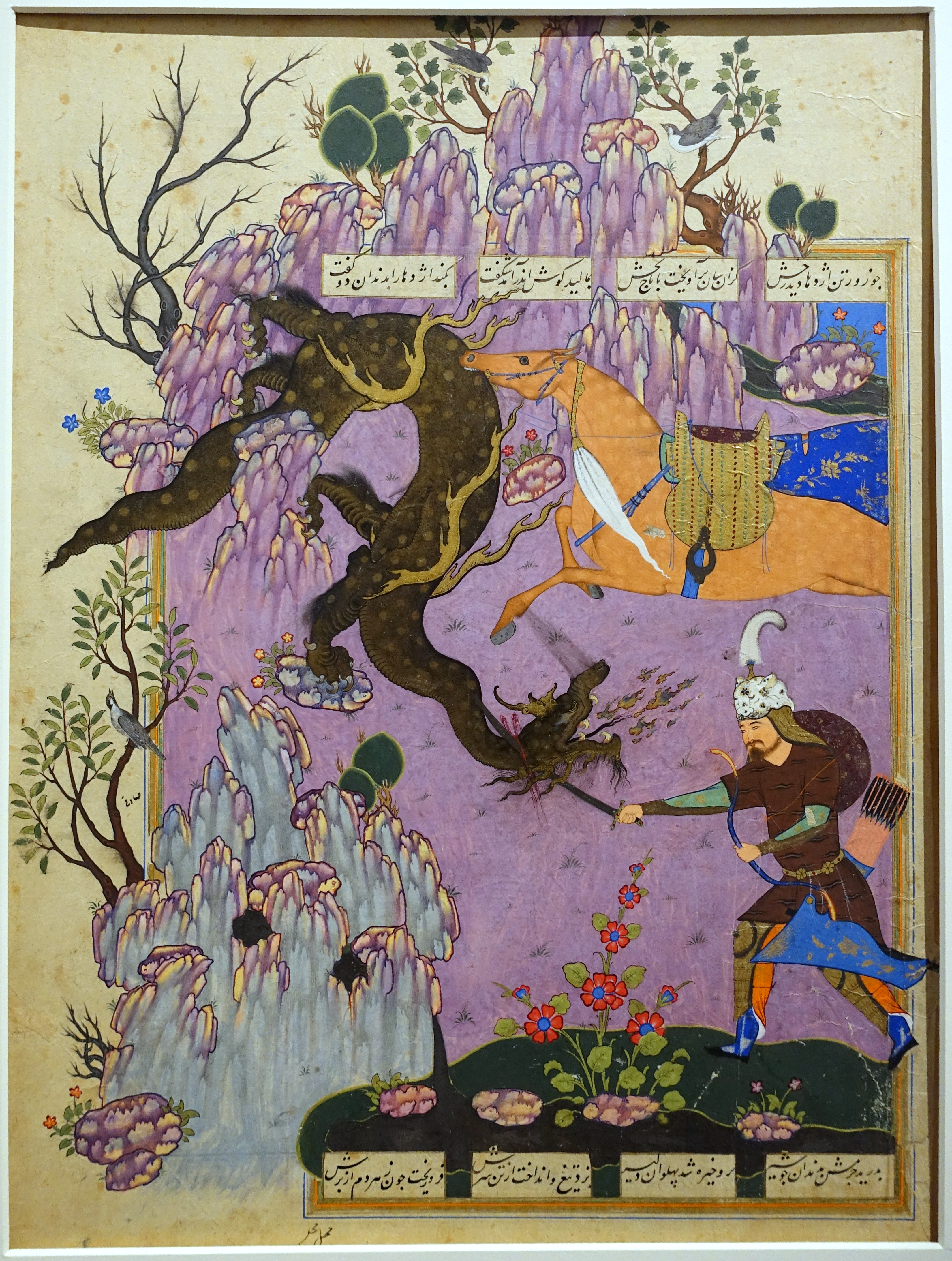 Exhibit in the Aga Khan Museum - Toronto, Canada. This work is old enough so that it is in the public domain.